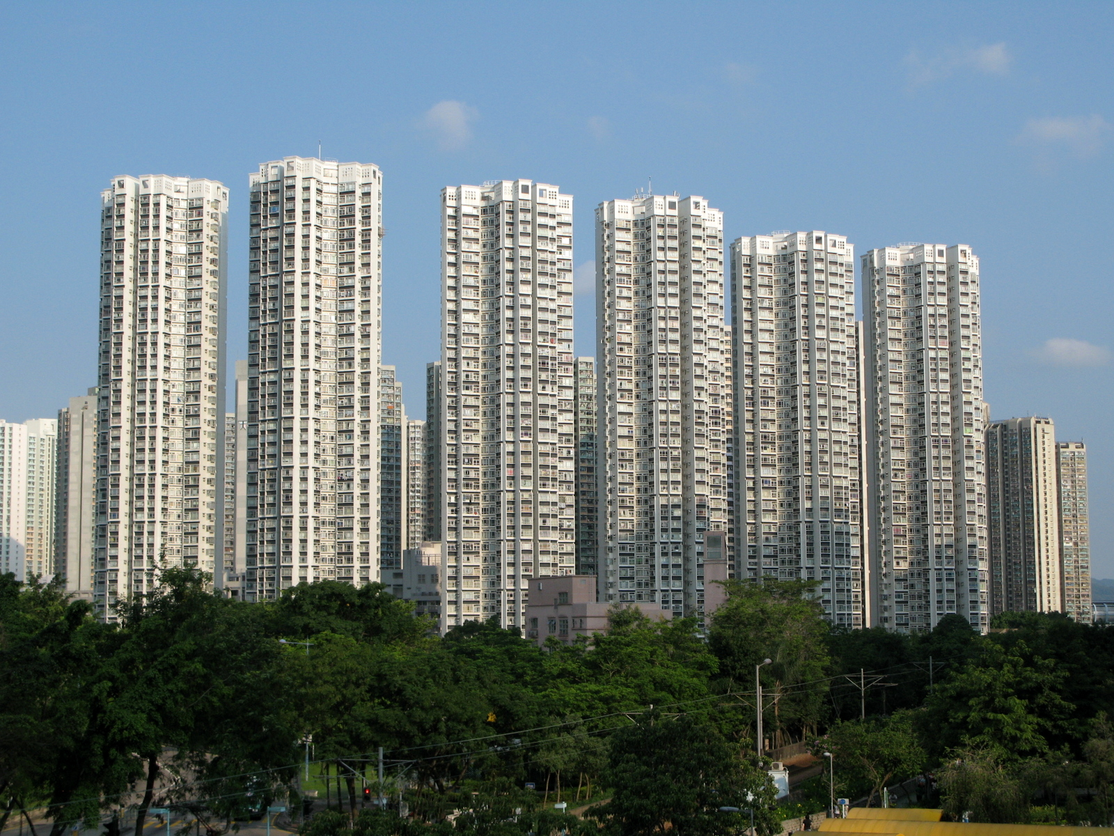 Kingswood Villas Sherwood Court 嘉湖山莊賞湖居